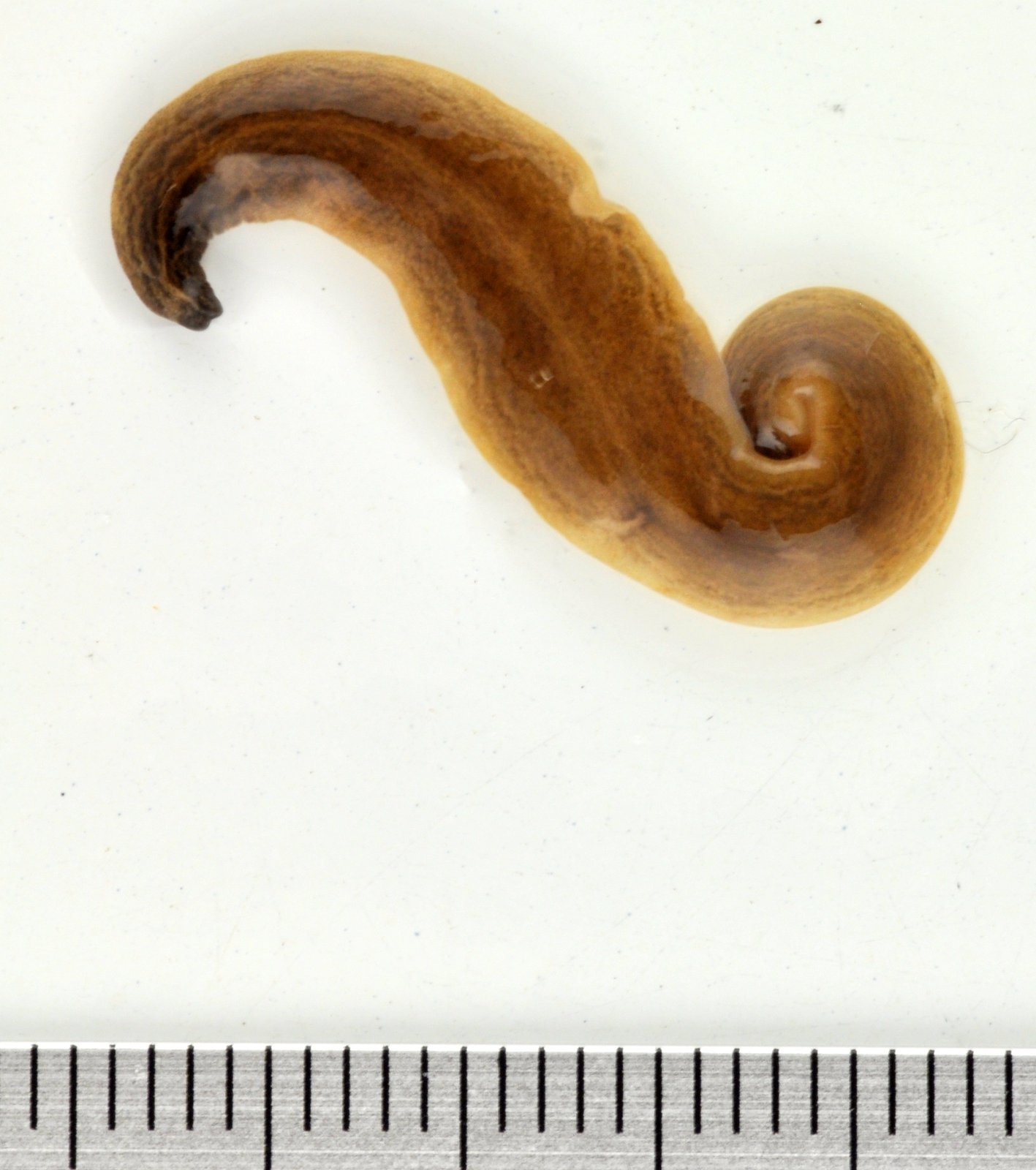 Obama nungara (Geoplanidae). From Lamballe, Côtes d'Armor, France. Scale in millimeters. Material in Muséum National d'Histoire Naturelle, MNHN JL57